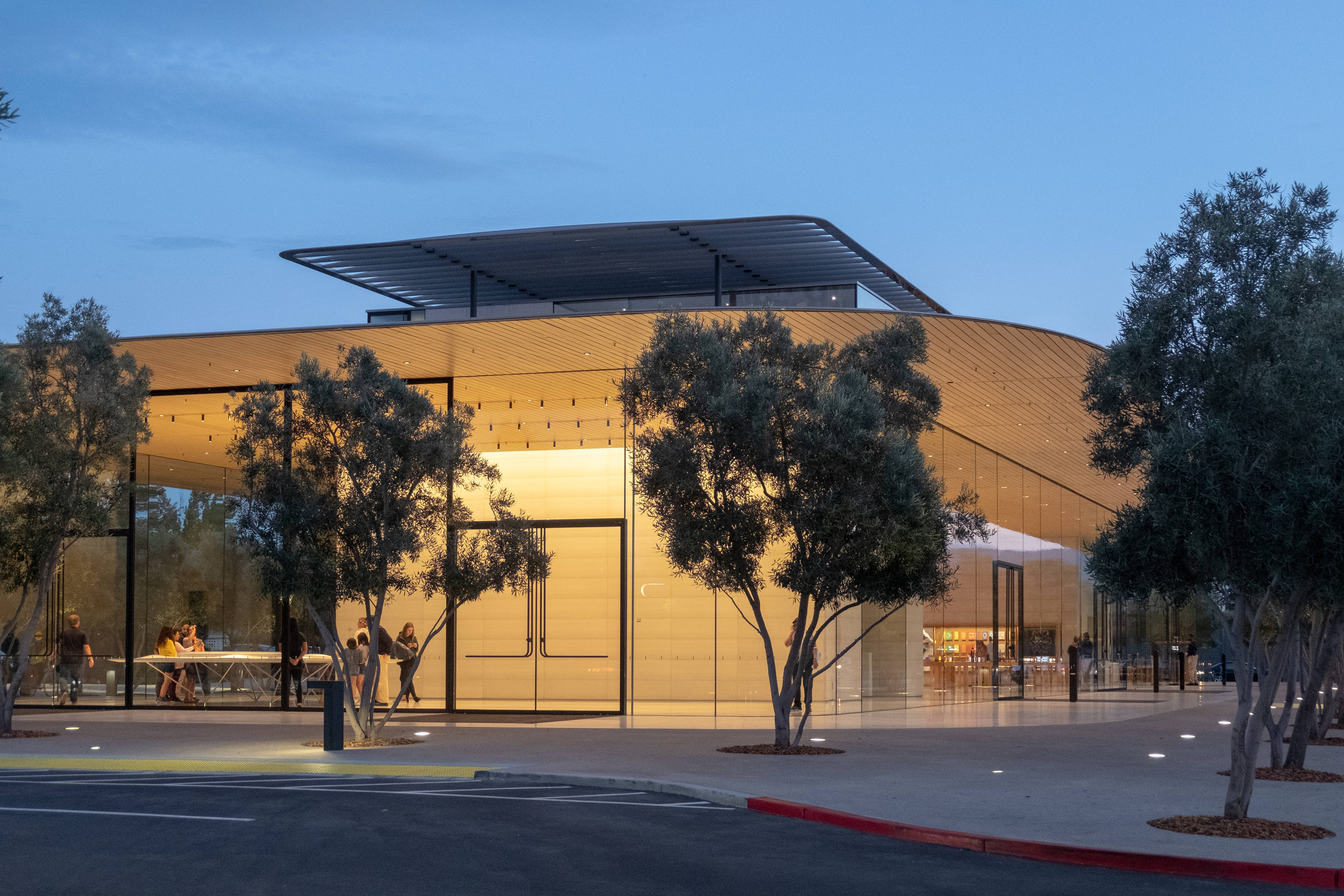 Apple Park Visitor Center in October 2018.